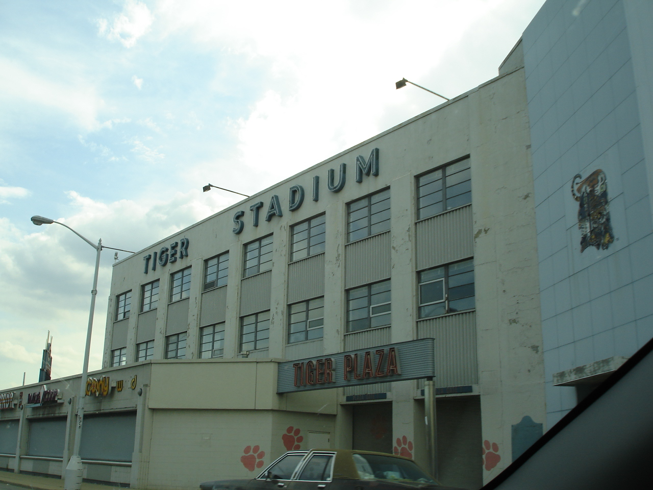 I took this picture myself on September 7th, 2006. 01:25, 14 September 2006 . . TheKuLeR . . 1,280×960 (496 KB)